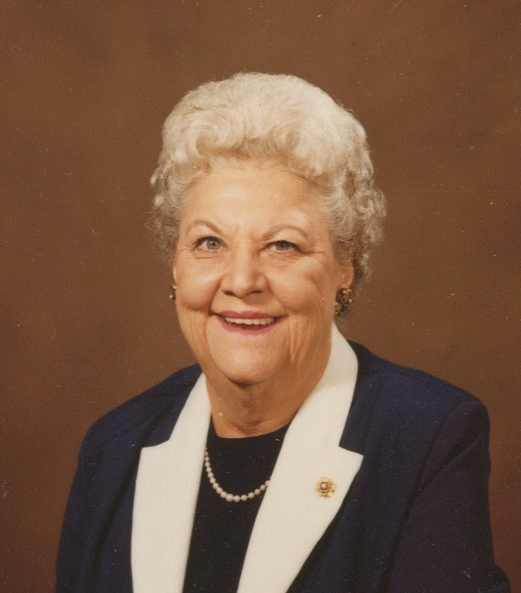 Thelma Stovall (April 1, 1919 - February 4, 1994) of Kentucky in 1983 while Commissioner of Labor in the Cabinet for Governor John Y. Brown Jr.